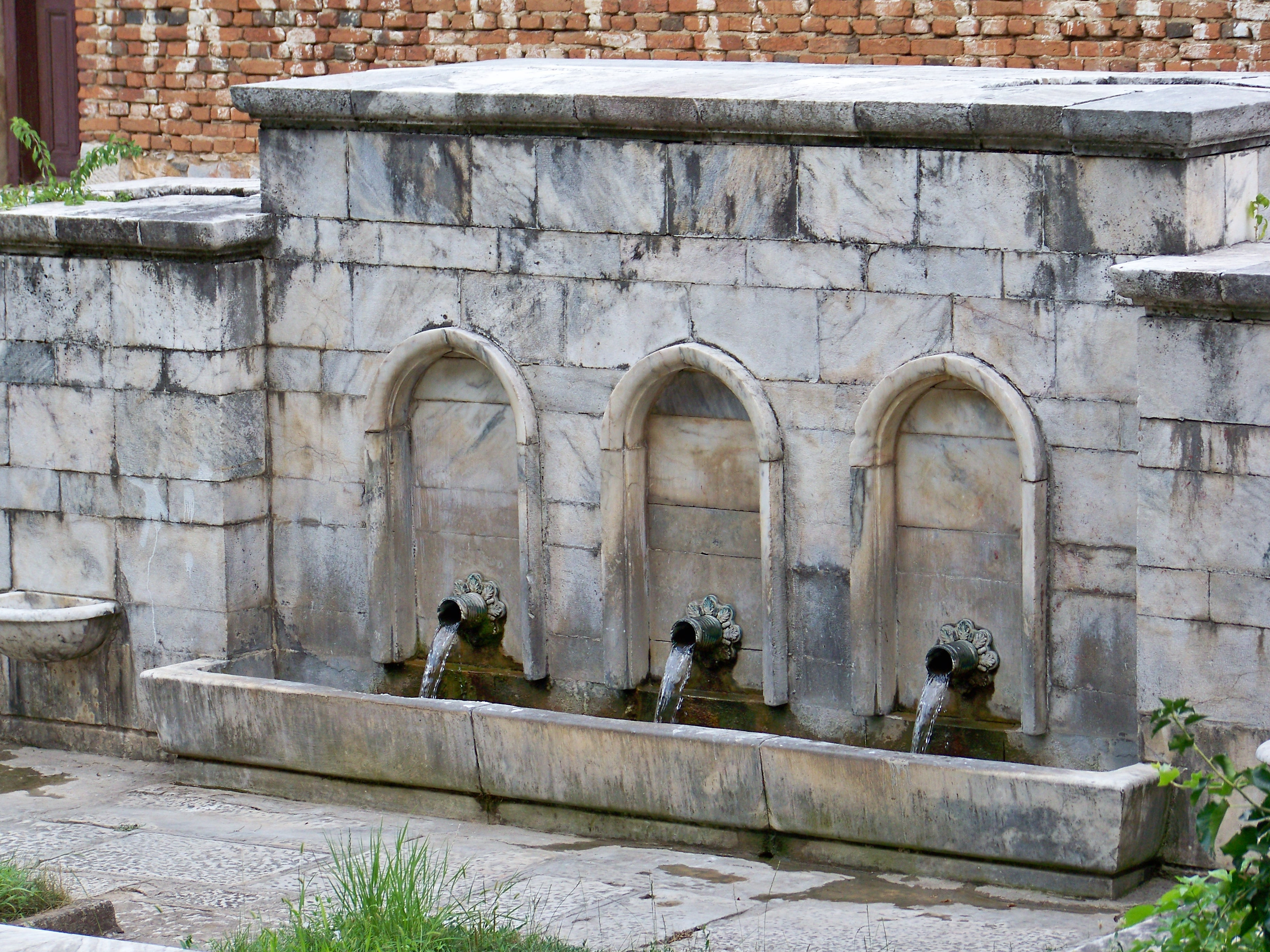 Drinking fountain in Malko Tarnovo